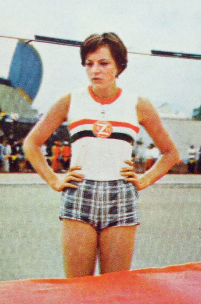 CAMPIONI DELLO SPORT 1969/70-n.34-TEMU (KENYA)-ATLETICA LEGG.-rec